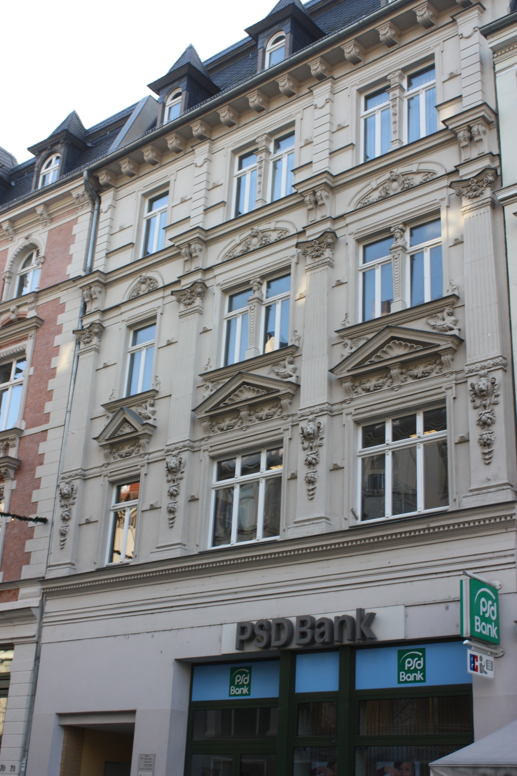 Halle (Saale), the house 71 Leipziger Straße